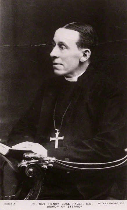 Luke Paget, Bishop of Stepney (later Bishop of Chester)